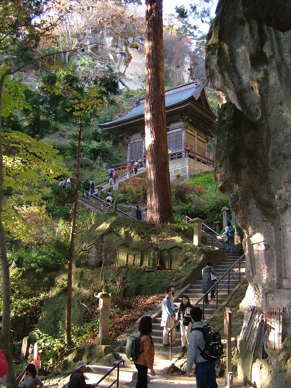 Niōmon gate of Risshaku-ji temple (Yama-dera) in Yamagata-shi, Yamagata Prefecture.